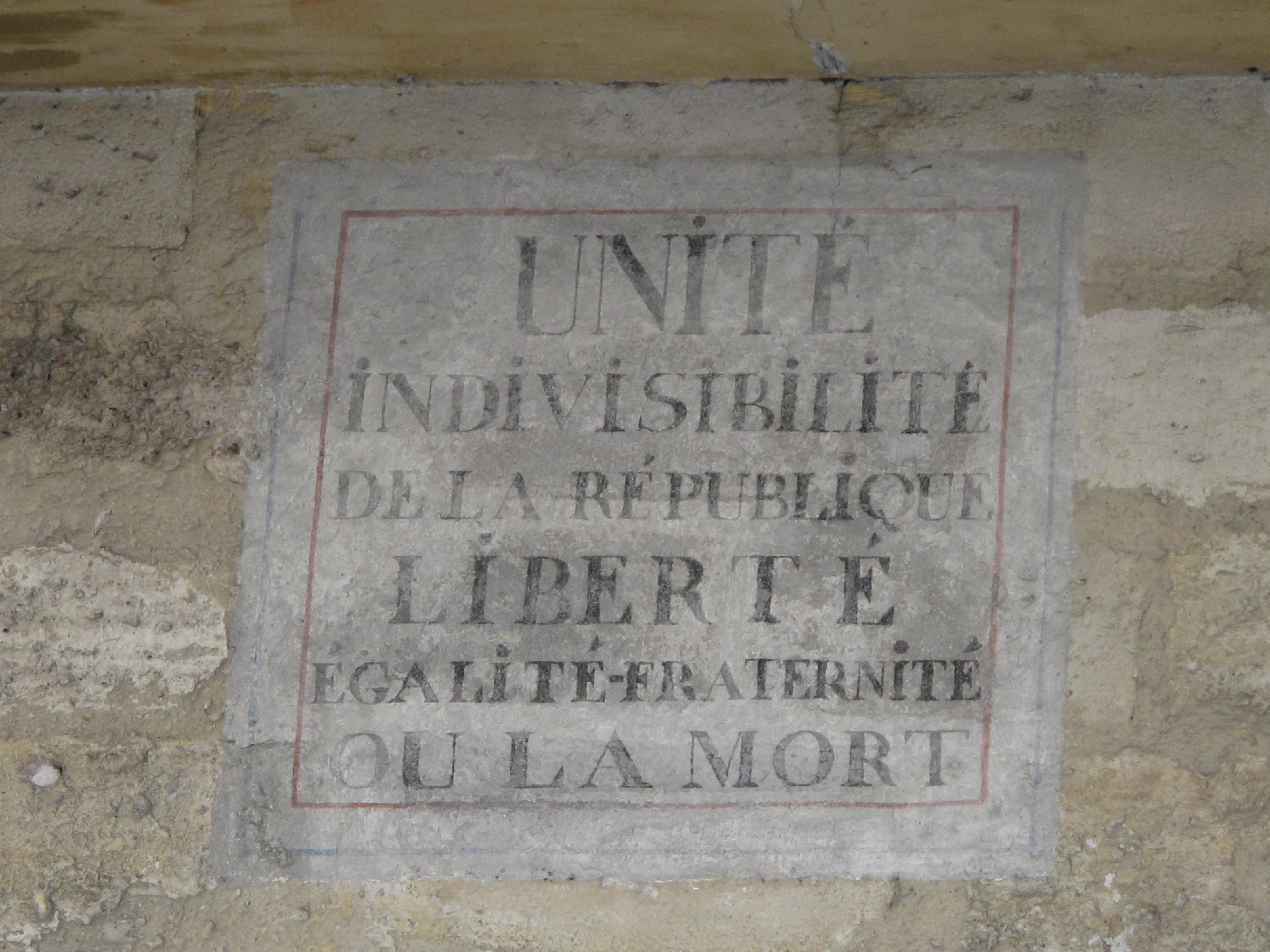 Revolutionary writing on a wall in Lagny-sur-Marne (France). The text is : "Unity, indivisibility of the republic. Liberty, equality, fraternity (brotherhood) or death"